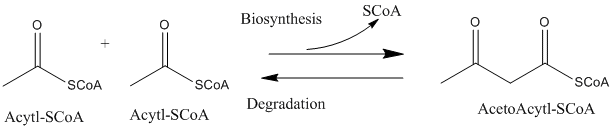 Reaction